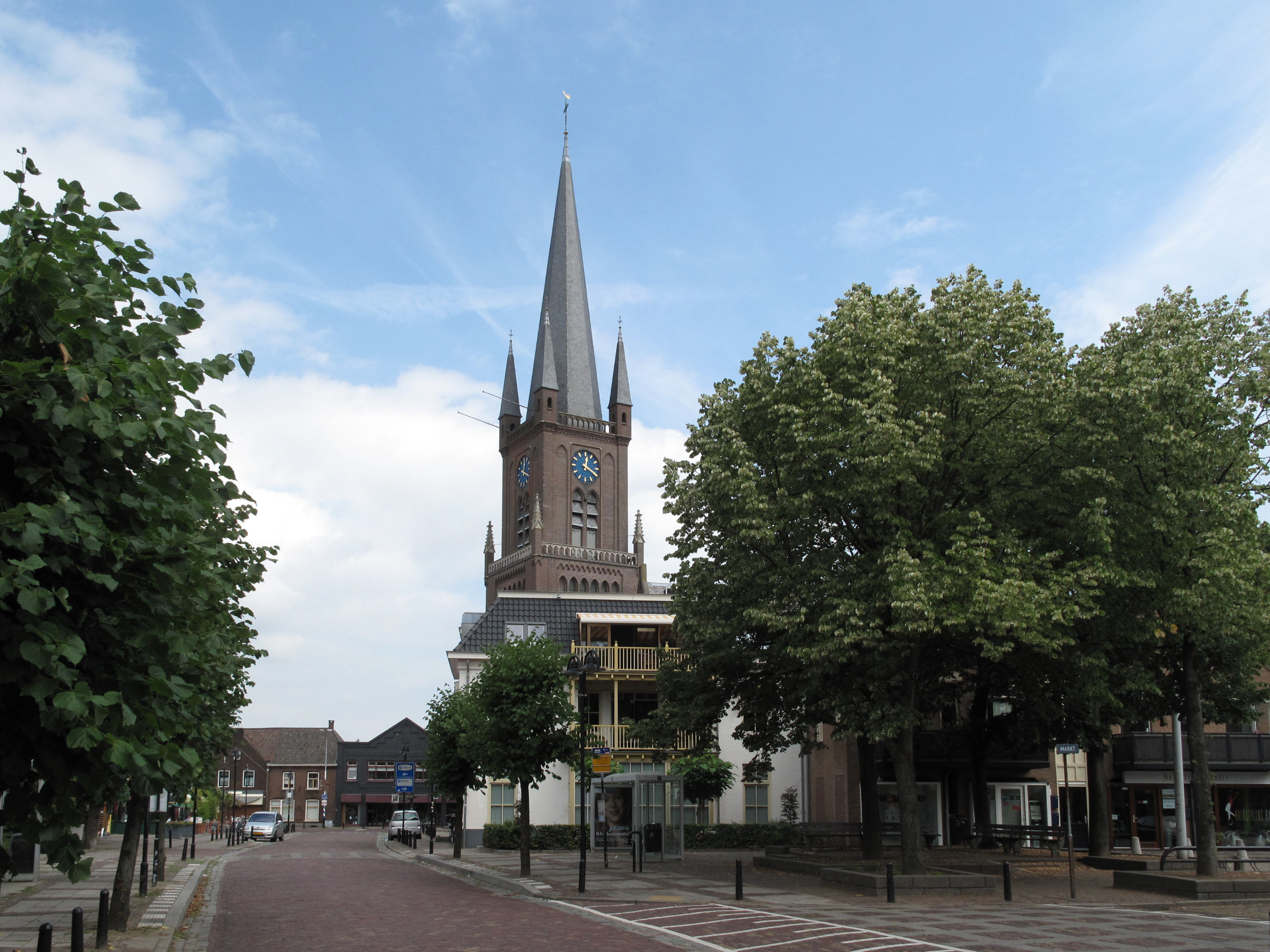 Druten, church in the street